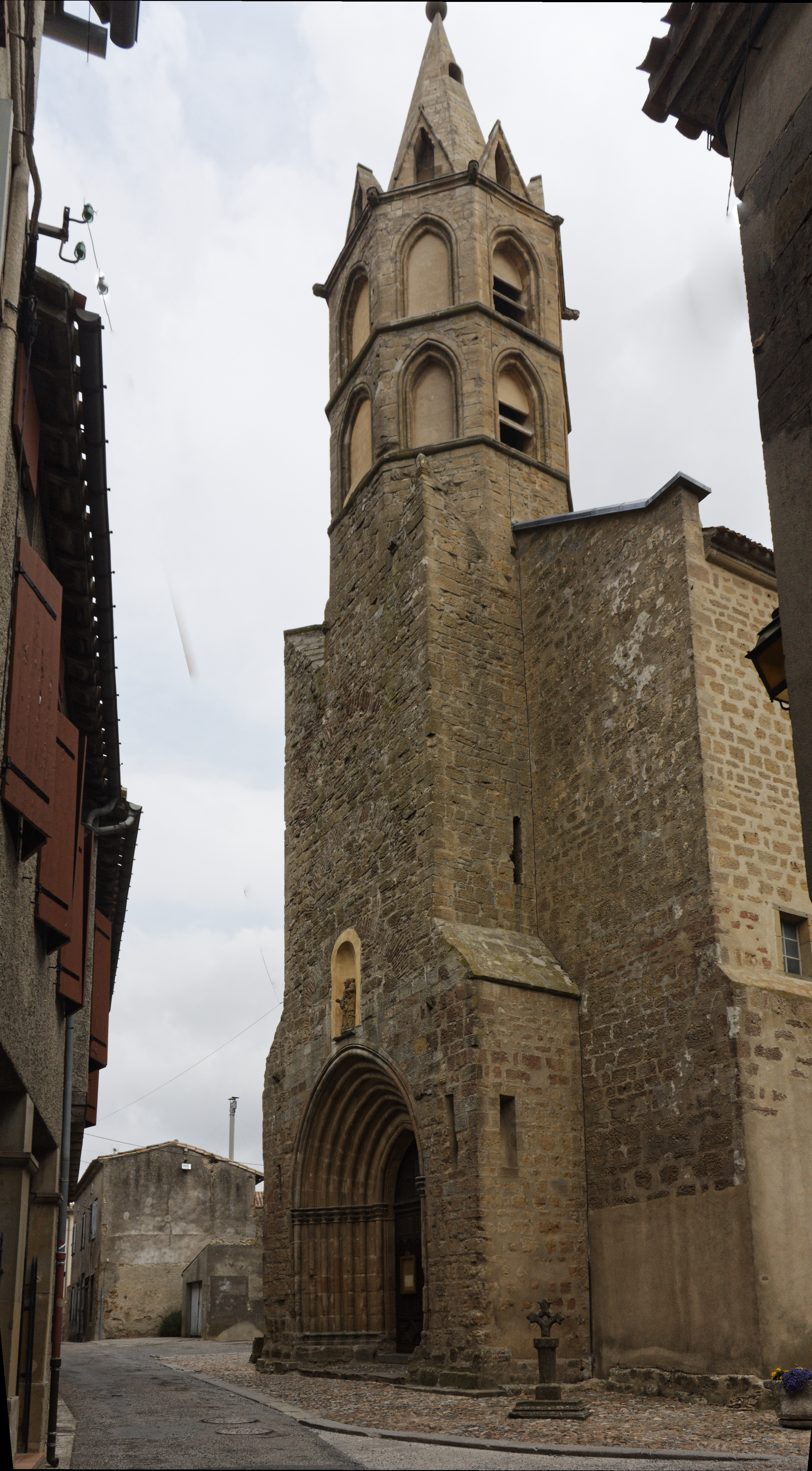 The Church of Our Lady of the Assumption, is a typical example of Southern Gothic. Constructed on the supposed site of a Roman temple in the late thirteenth century, the interior has a remarkable baroque decoration of the eighteenth century.